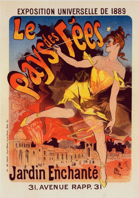 Poster for a "Land of Fairies – Enchanted Garden" at the Universal Exposition 1889 in Paris.